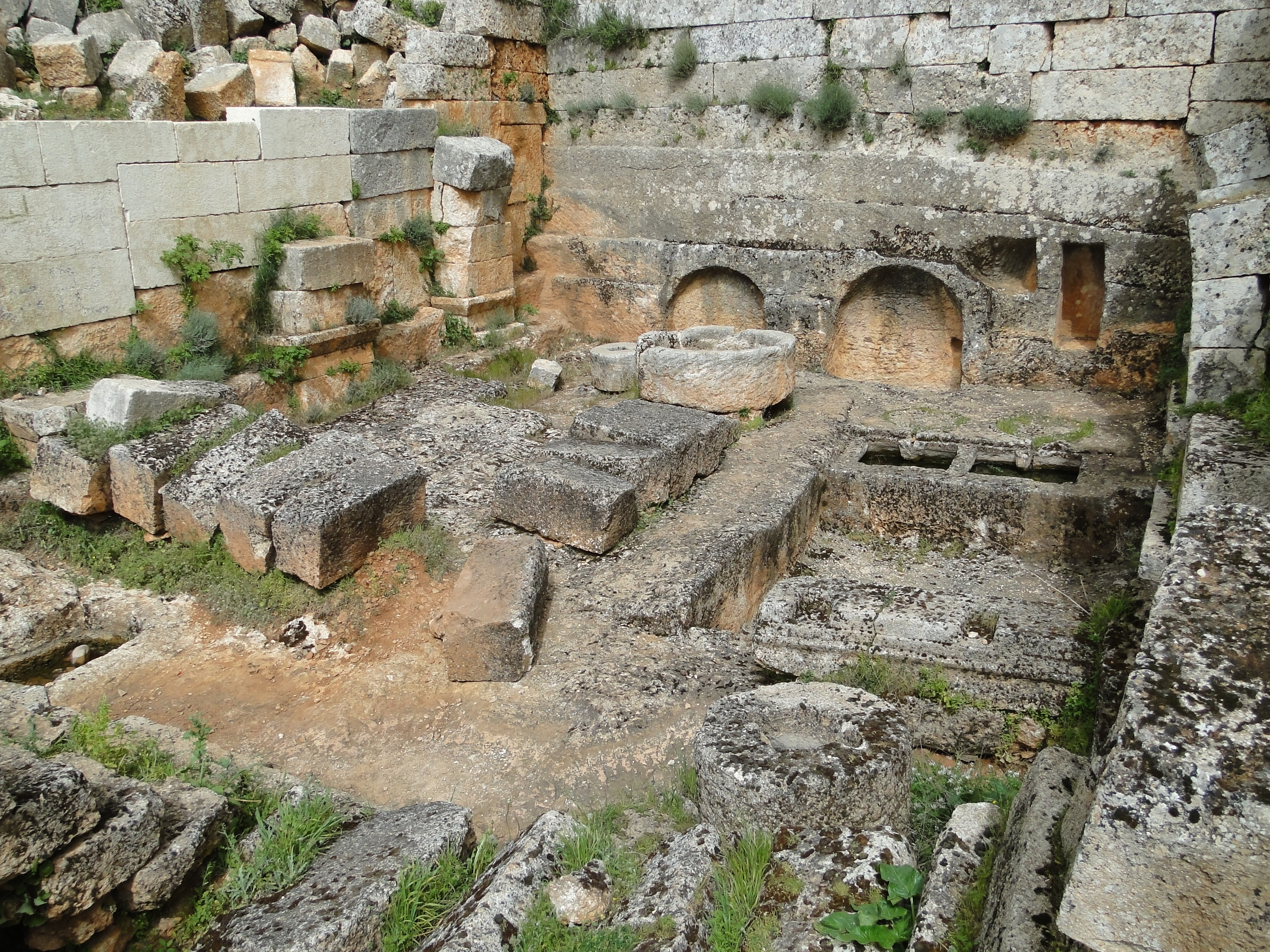 The press-house of Serjilla, Syria